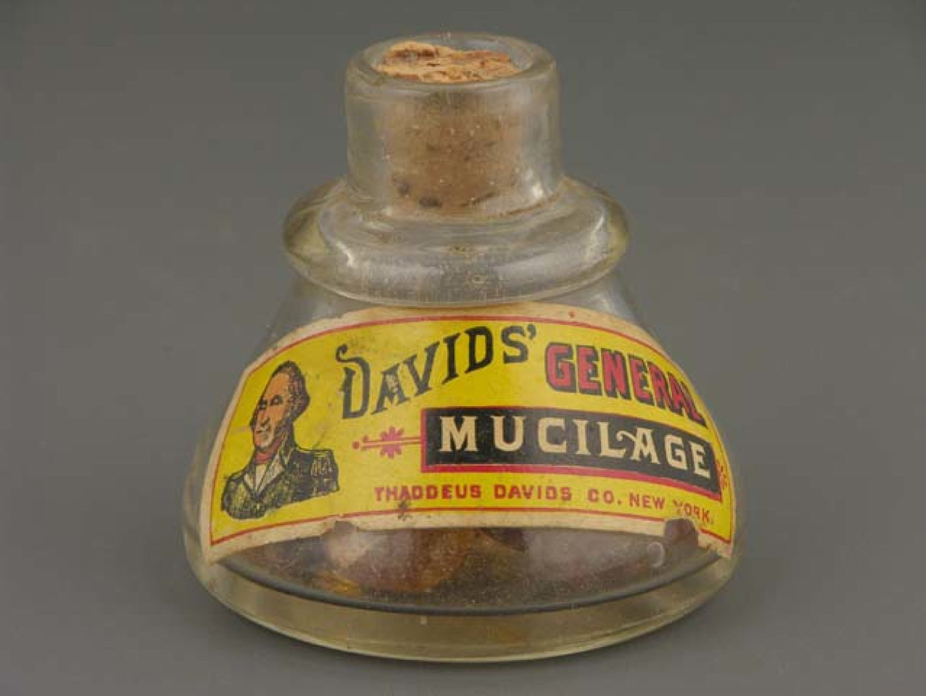 Bottle of "David's General Mucilage" from the first half of the 20th century.